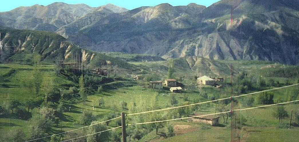 Çatalkaya village (former name: Gimek), Yayladere, Bingöl Province Kurdî: Gundê Gimekê di havîna 1987'an de